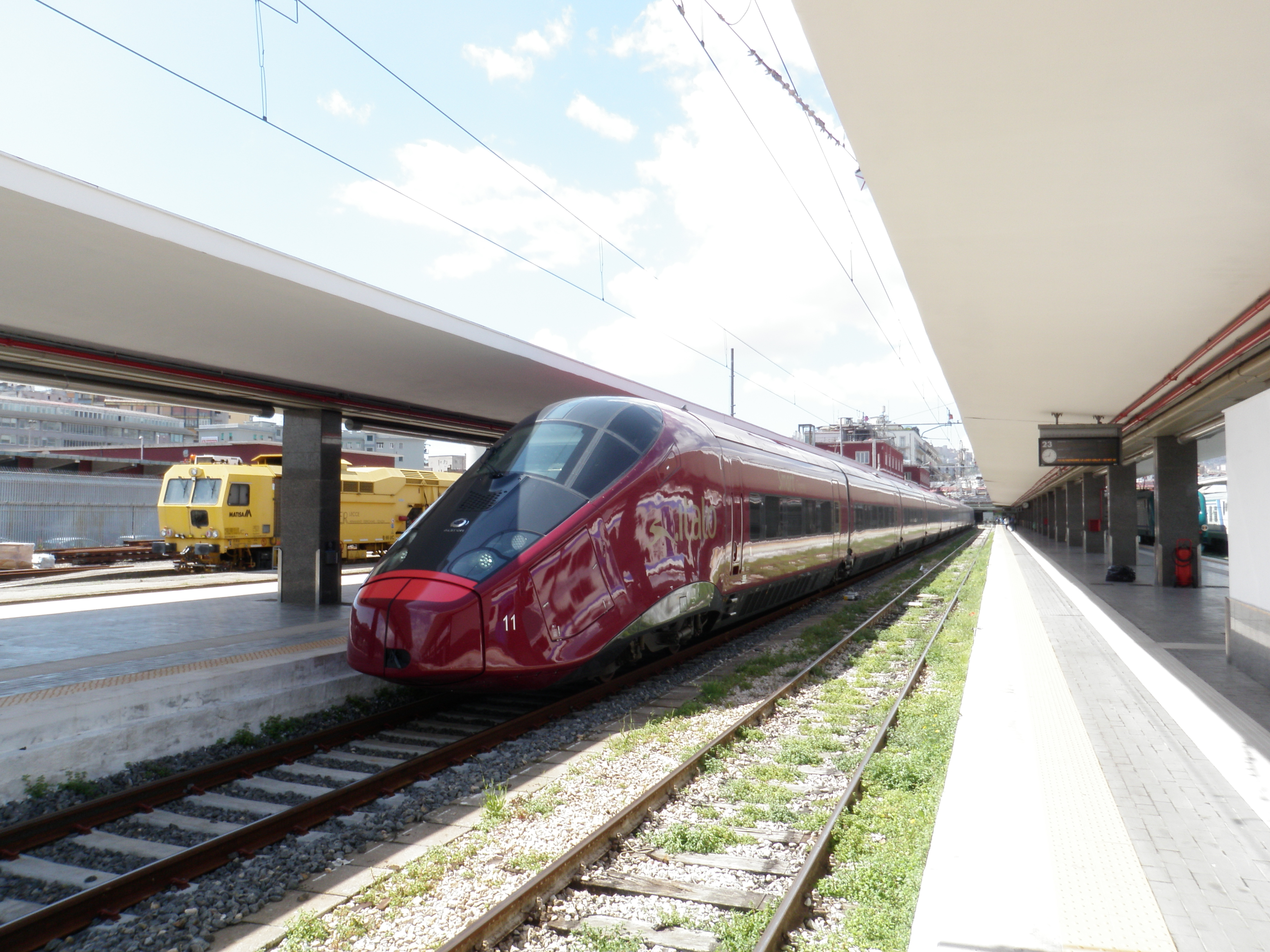 Alstom AGV .italo from NTV in Napoli Centrale railway station.